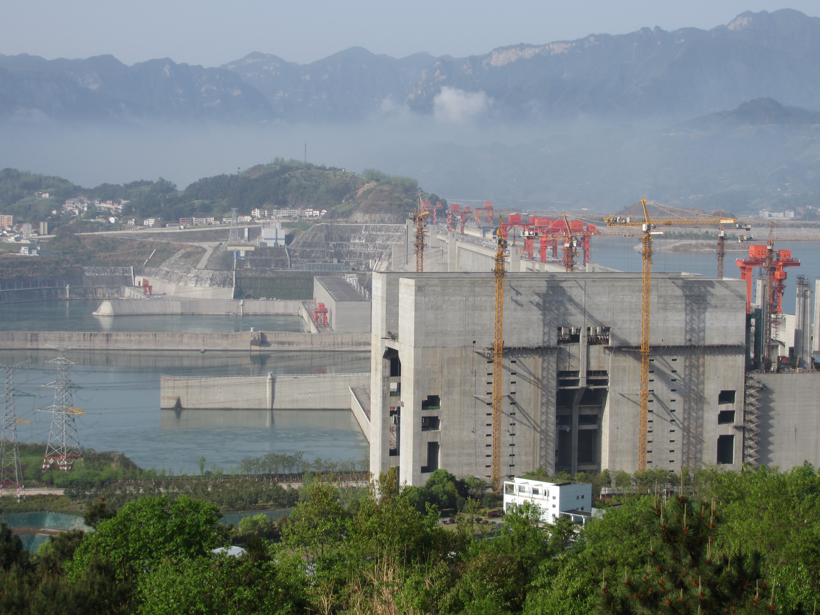 Three Gorges Dam